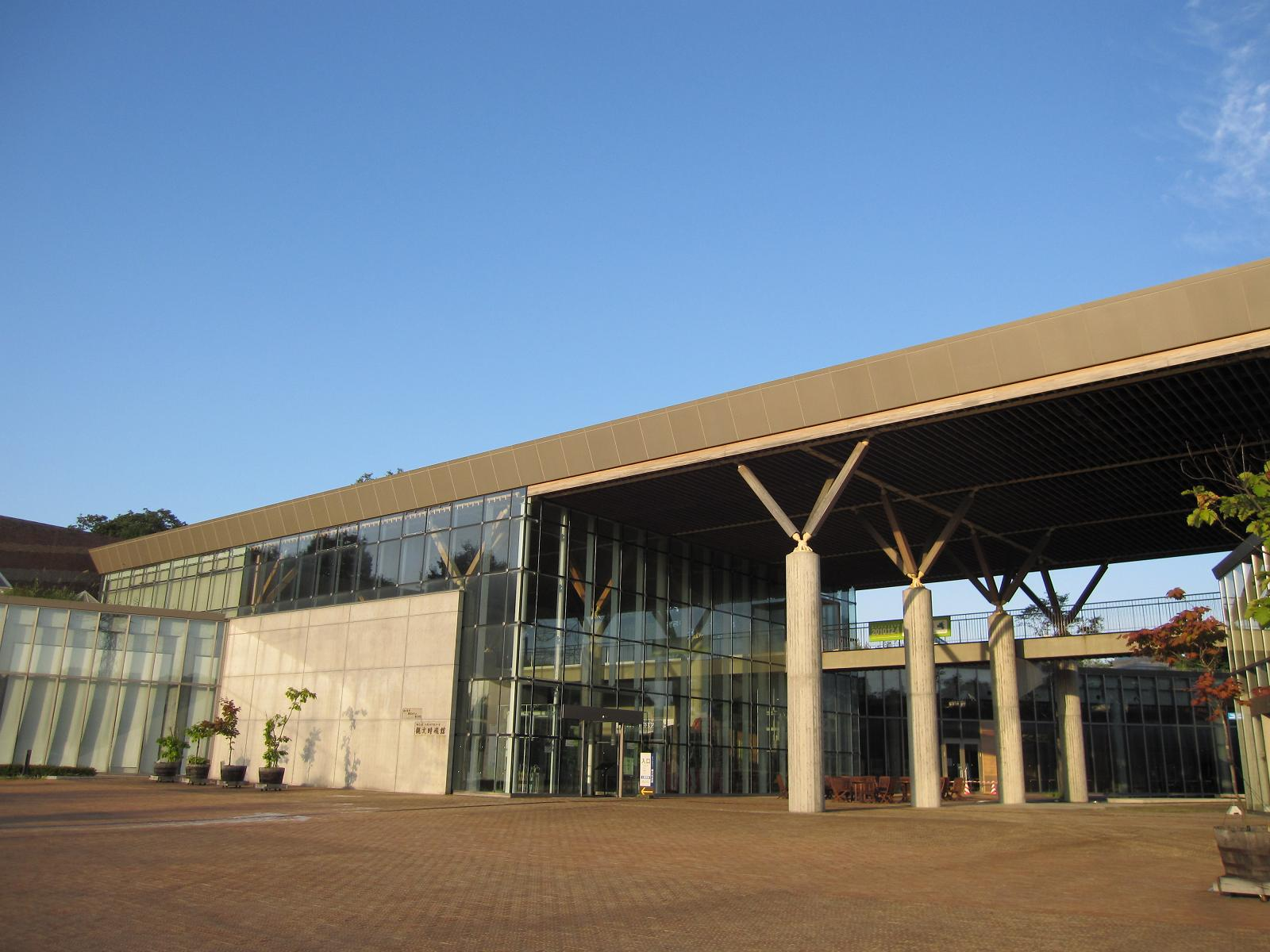 Jomon jiyukan